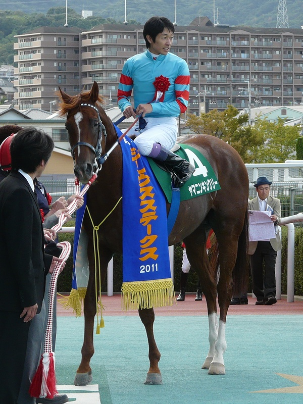 Yamanin-Kingly20111001